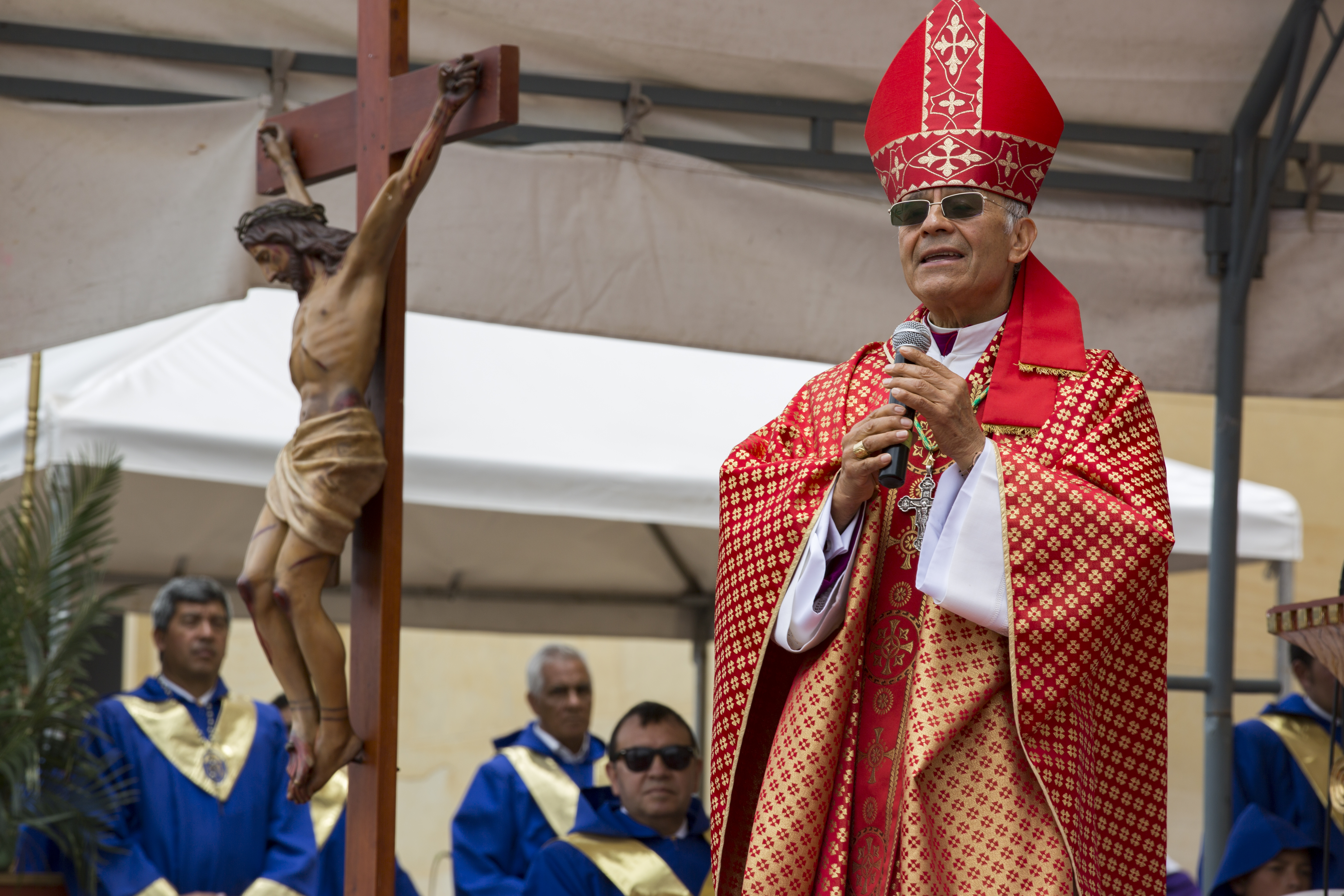 Luis Felipe Sánchez Aponte, bishop of Chiquinquirá, during Palms Sunday, 2017.